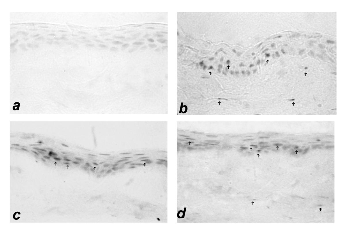 Immunolocalization of MMP-1 in intact corneal epithelium at 48 hours is shown for each treatment group. Panel a: artificial tears; panel b: Ciprofloxacin 0.3%; panel c: Ofloxacin 0.3%; panel d: Levofloxacin 0.5%. A photomicrograph of the artificial tear group shows negative corneal staining for MMP-1. However, intense corneal epithelial and superficial stromal expression of MMP-1 was identified in intact corneal epithelium groups treated with fluoroquinolone eye drops (panel's b-d). The presence of MMP-1 was detected mostly in the corneal epithelial cells (arrows). (Immunohistochemistry, ×400 magnification).Reviglio et al. BMC Ophthalmology 2003 3:10